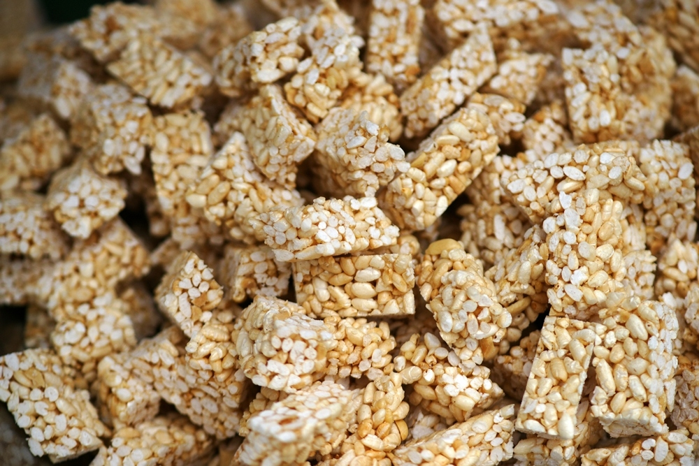 Sweet, taffy crackers made wit rice puffs.